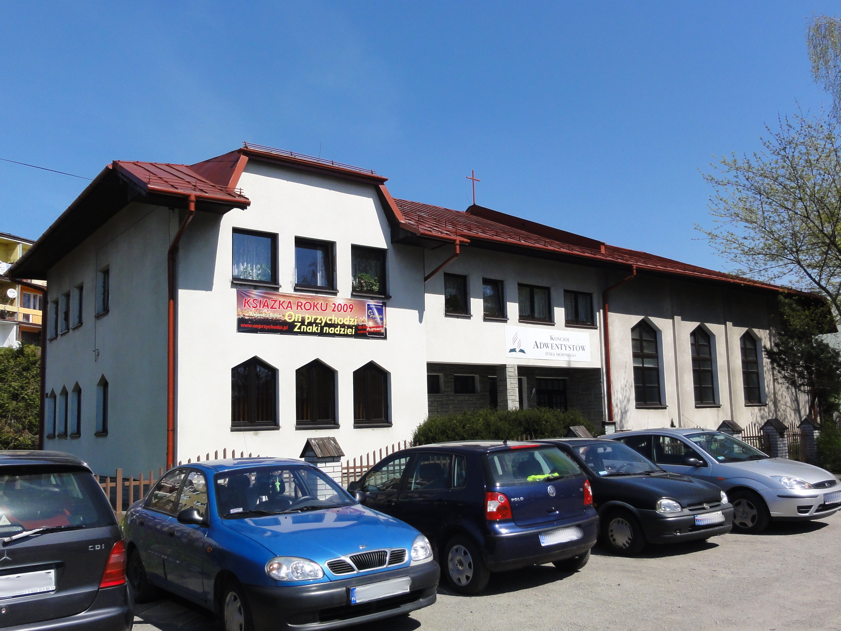 Seventh-Day Adventist churches in Skoczów